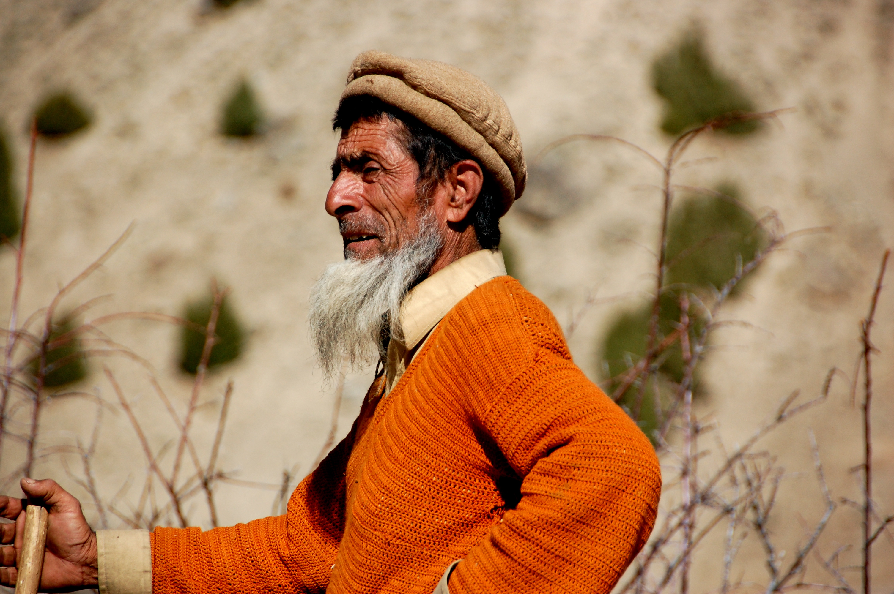 Bearded older man, Hunza Valley, Gilgit-Baltistan, Pakistan